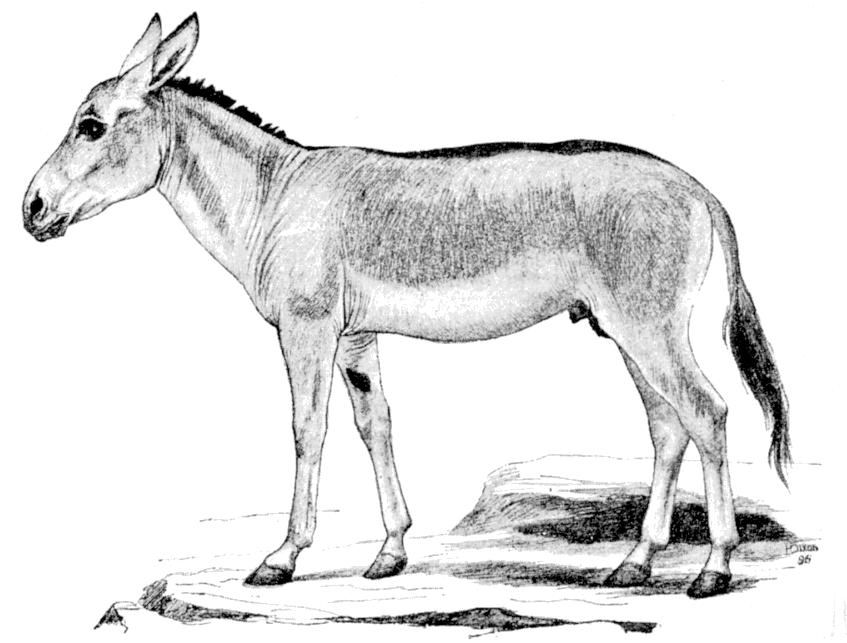 Fig. 125.—Asiatic Wild Ass. Equus onager. × 1⁄20. Now treated as a subspecies of E. hemionus.